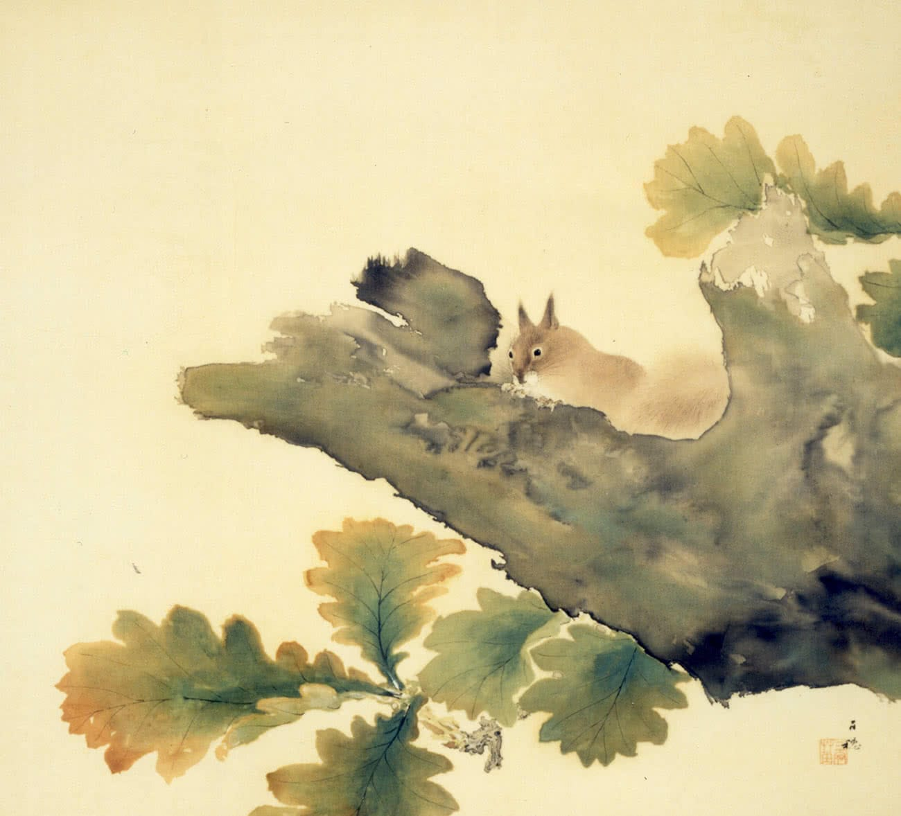 Squirrel (using the tarashikomi technique)